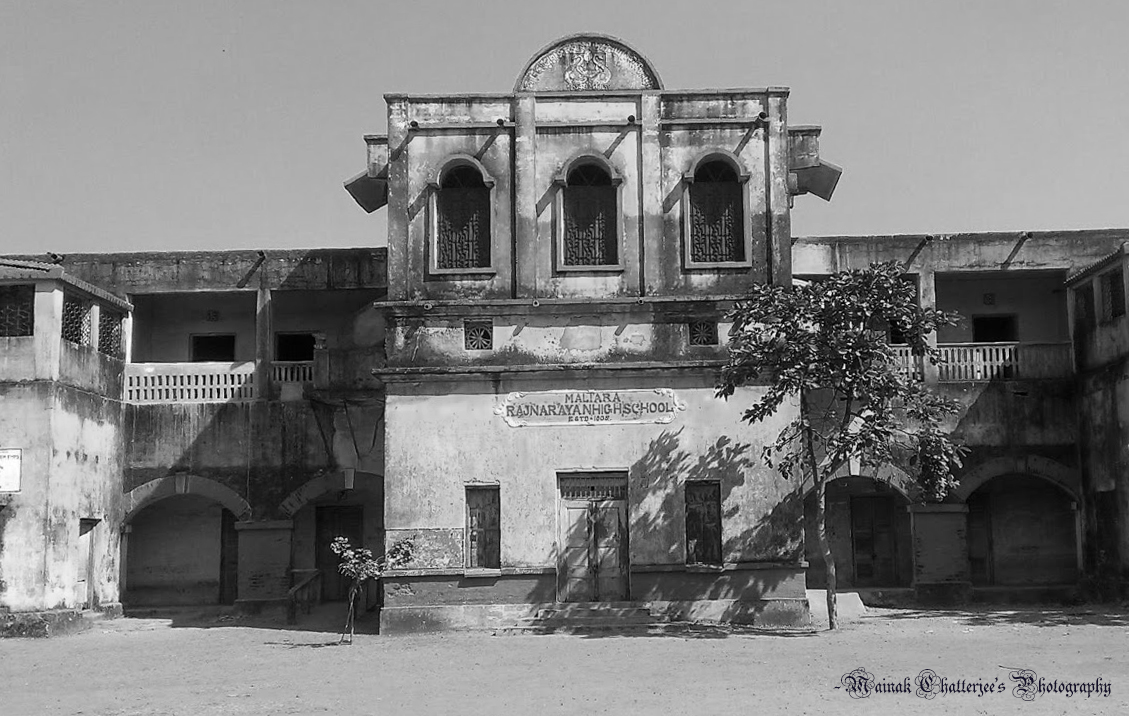 This is the photo taken in the exact loacation